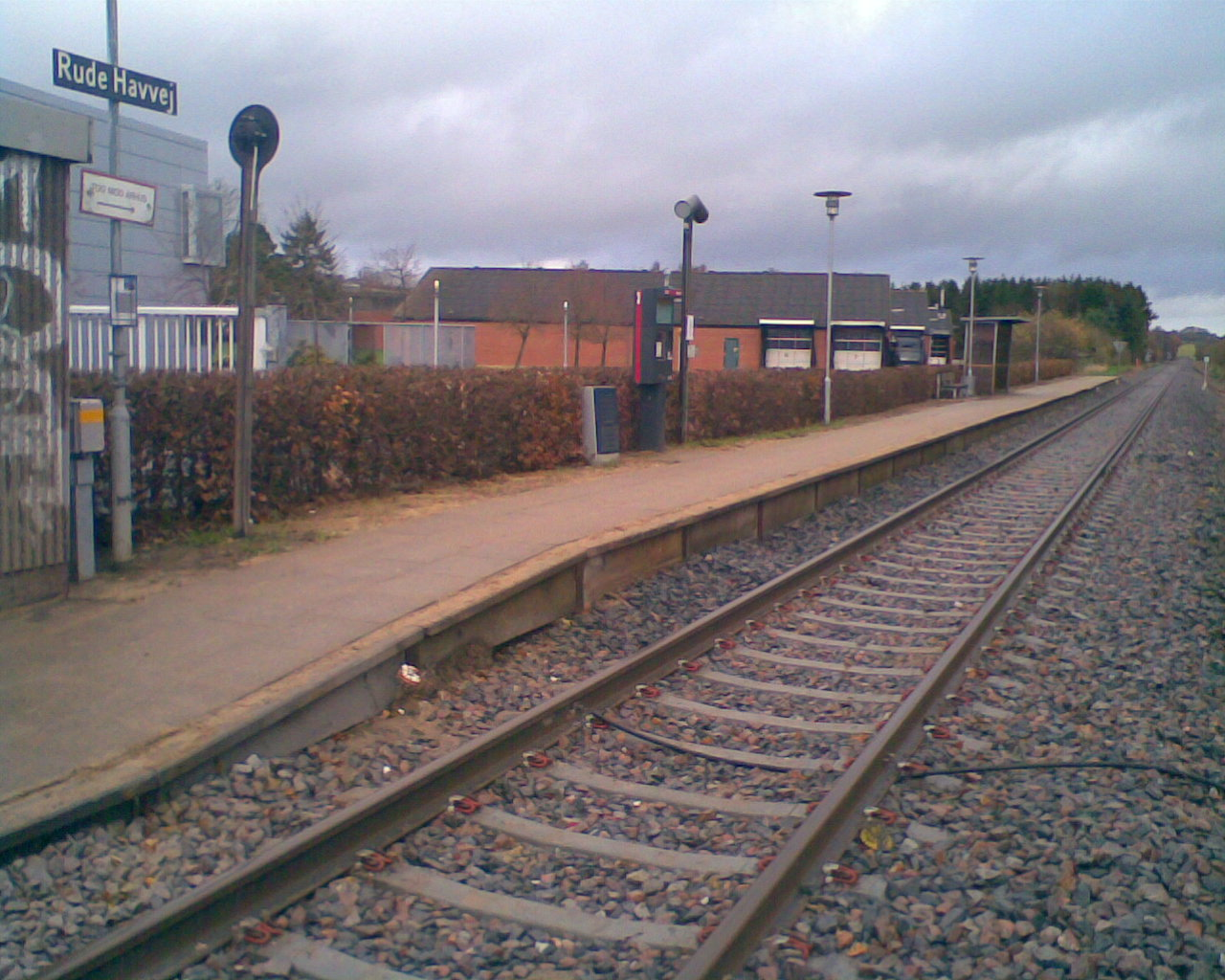 Rude Havvej Station, Odder, Denmark